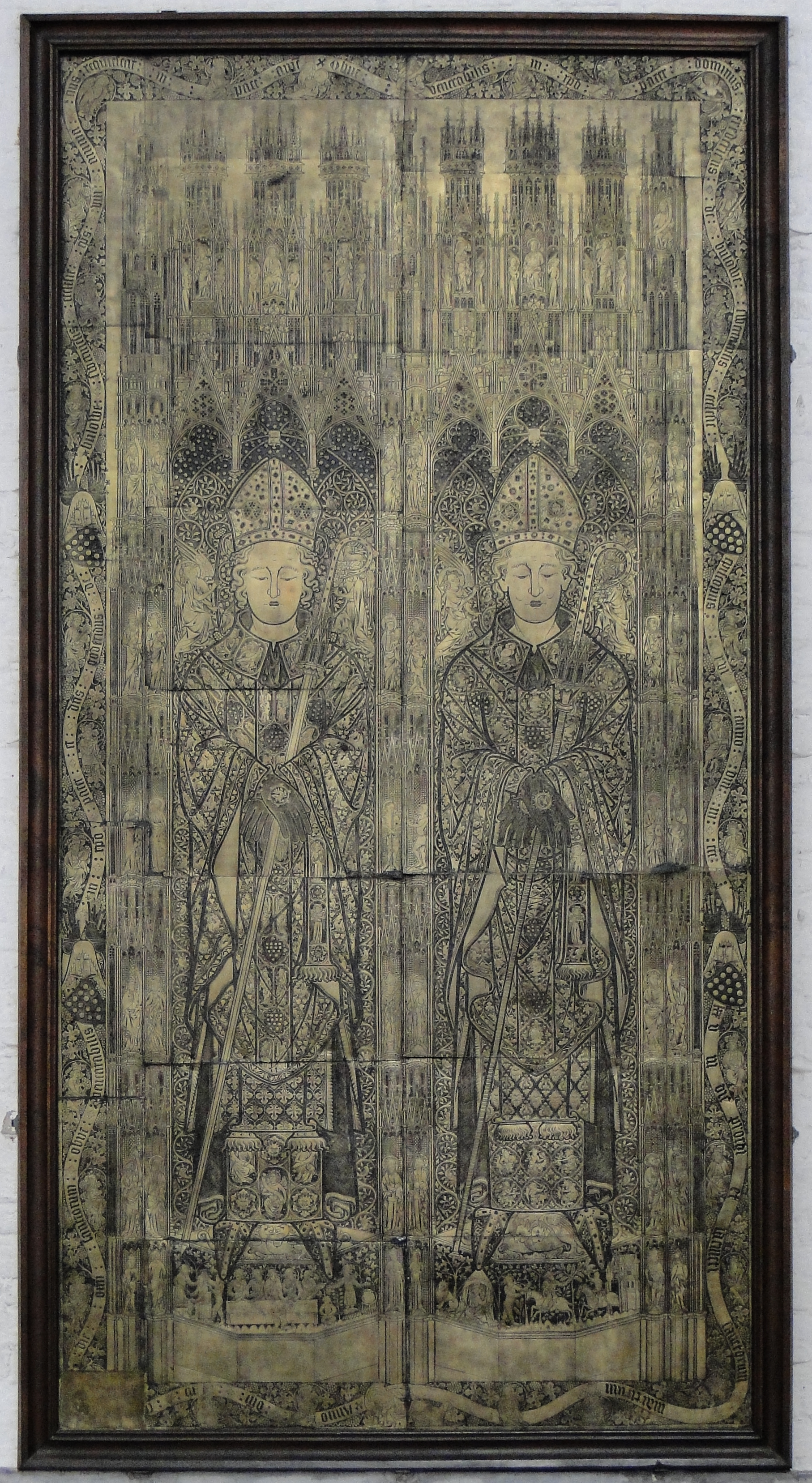 Bishops Gottfried I. and Friedrich II. monumental brass in the cathedral in Schwerin, Mecklenburg-Vorpommern, Germany